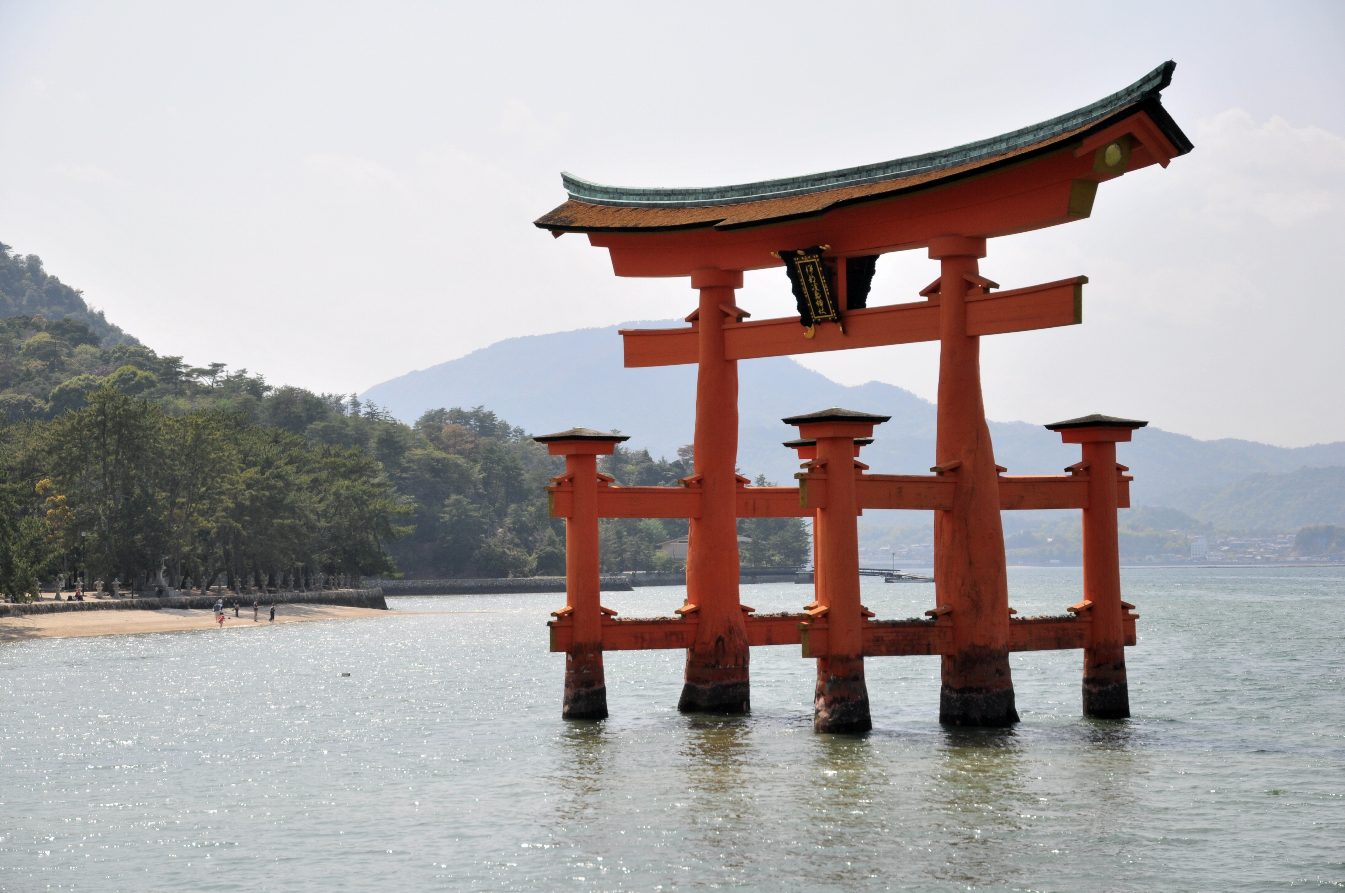 Torii at Itsukushima Shrine, Miyajima, Hiroshima Prefecture, Japan